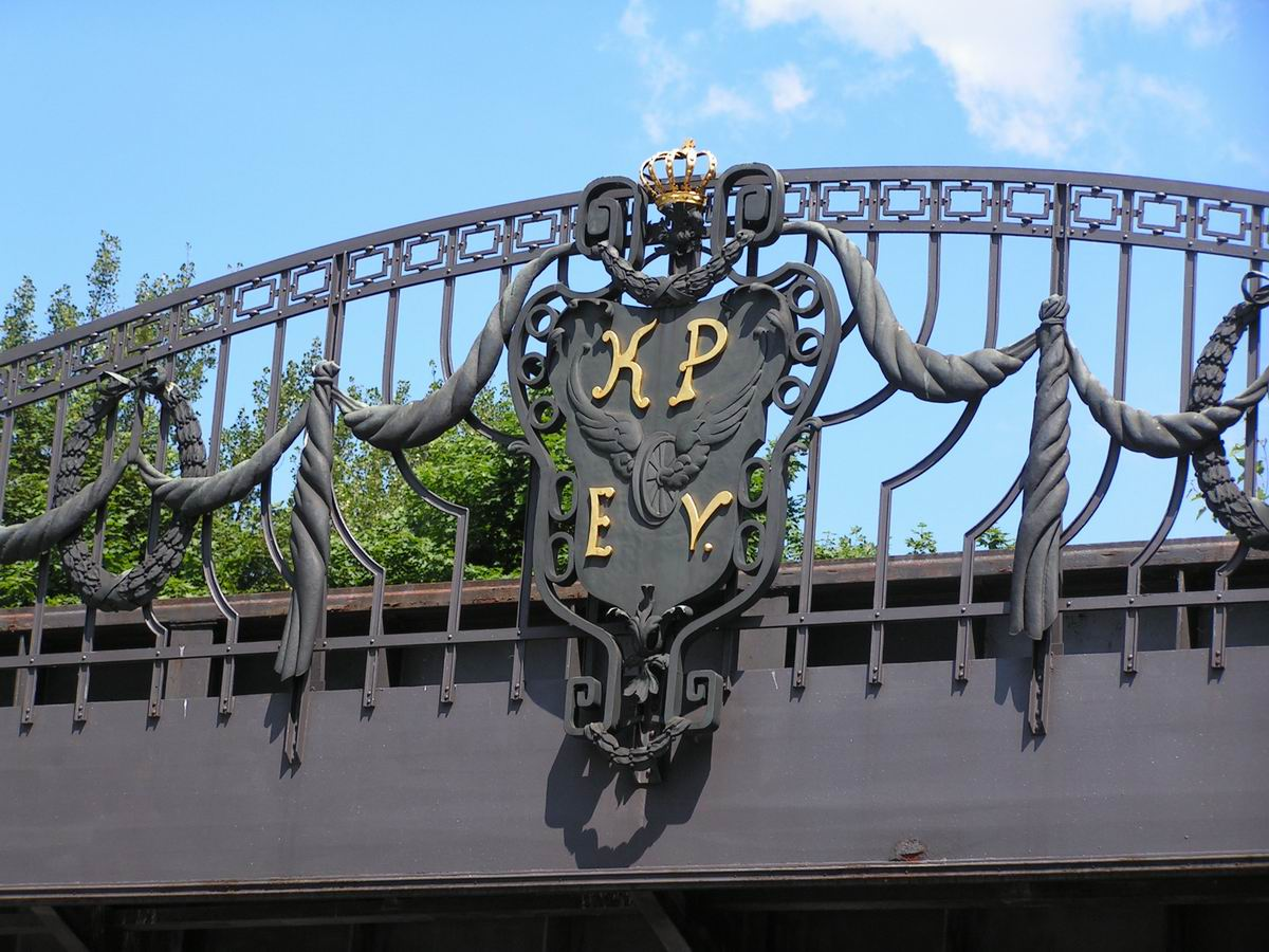 Coat of arms of the KPEV at the Berlin's S-Bahn station "Mexikoplatz"